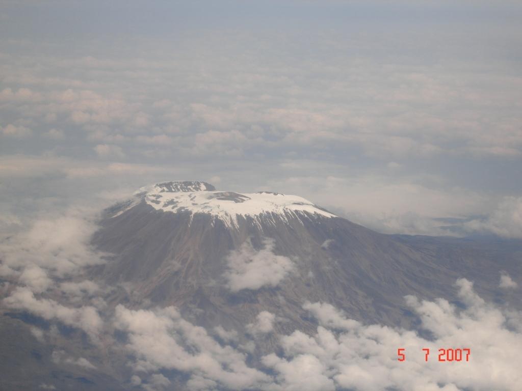 I took it myself